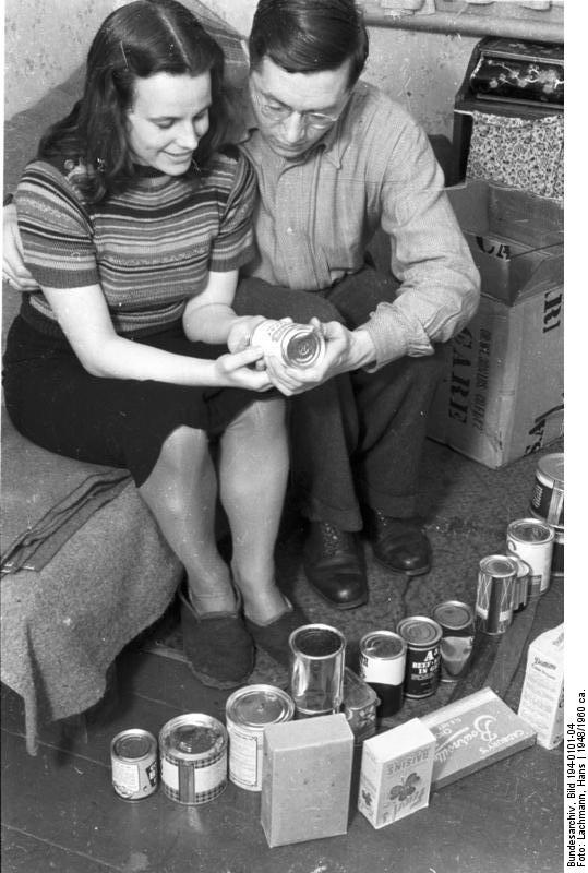 Care-Paket